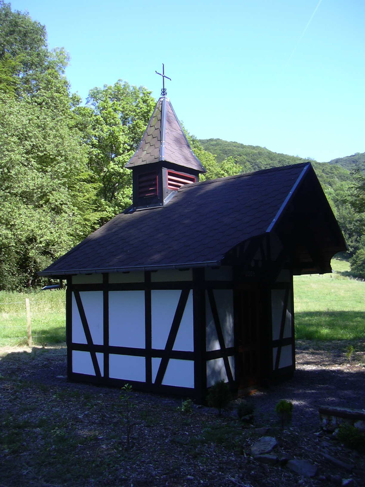 Chapel at former water mill, Fockenbach Valley, Westerwald/Germany